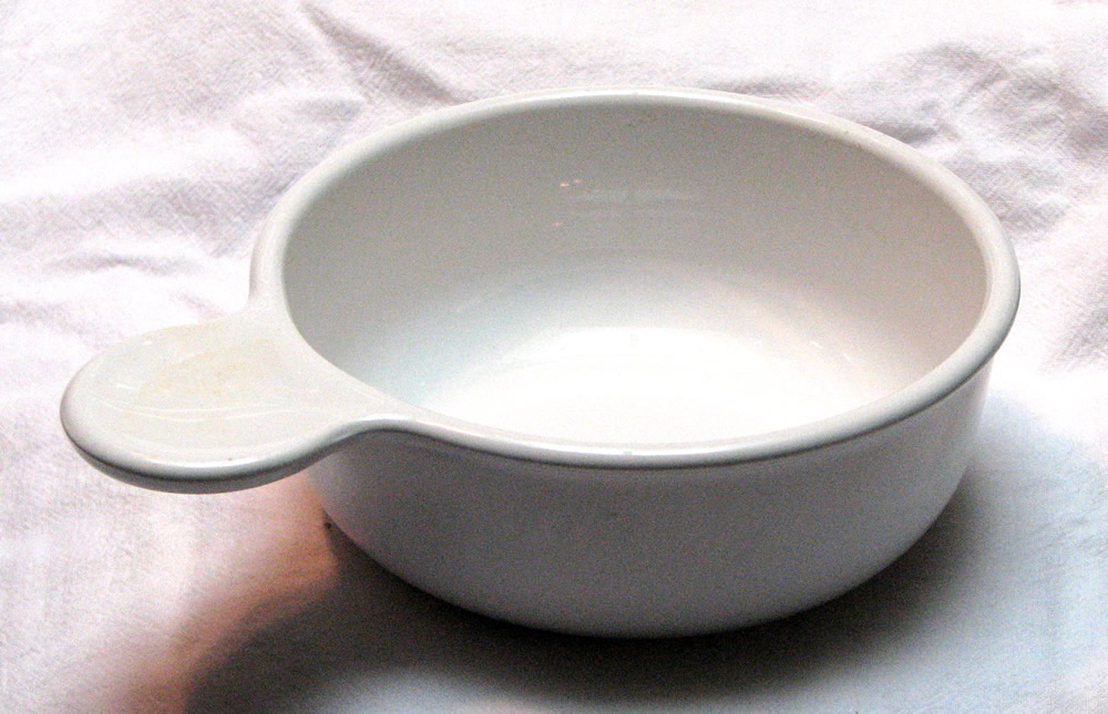 A grabit microwave bowl.